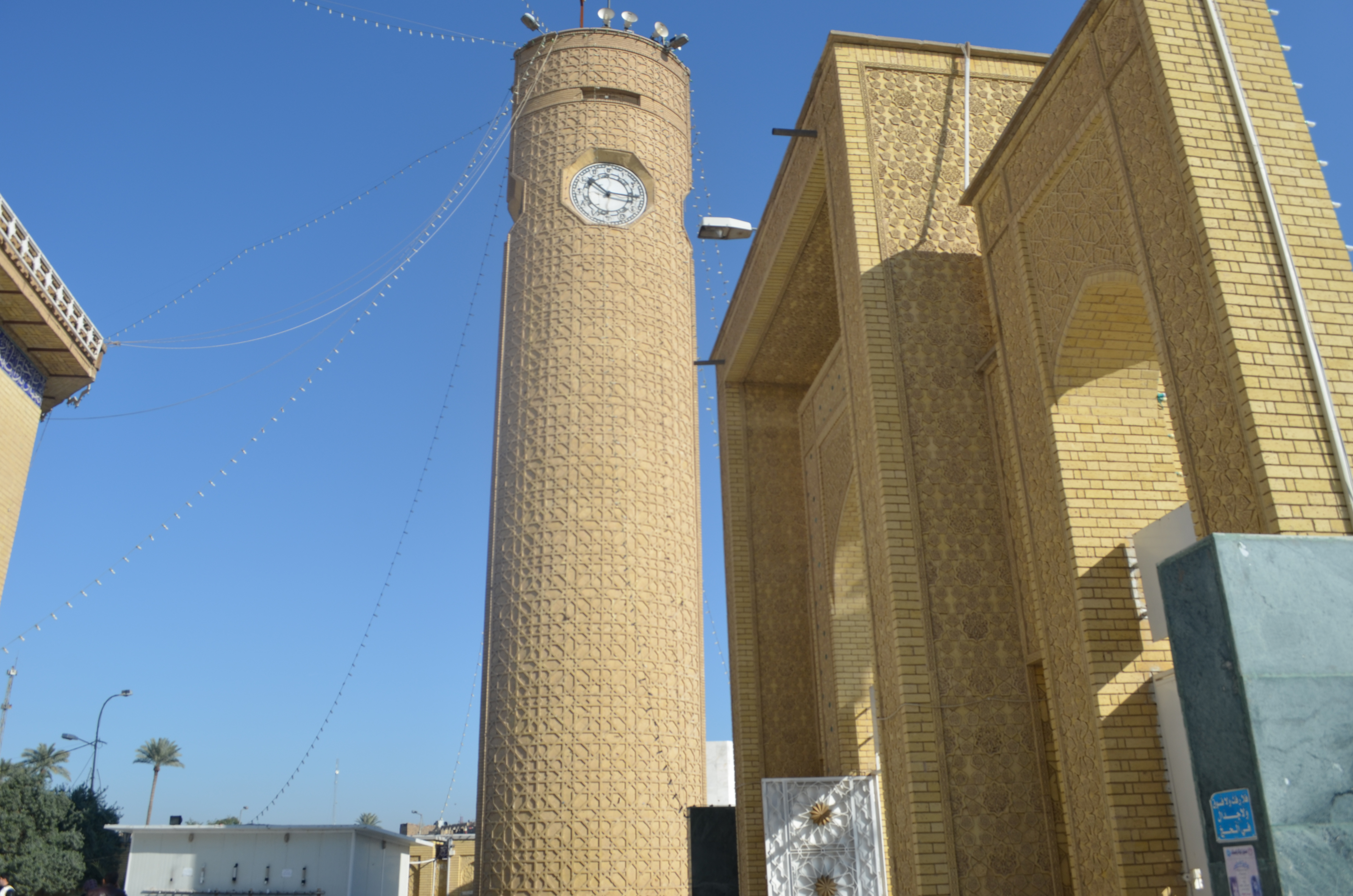 The Clock tower in Abu Hanifa Mosque in Baghdad